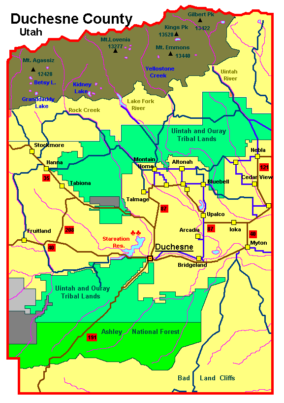 Duchesne County (UT) Details, selfmade graphic by R.Blauert Dk4hb